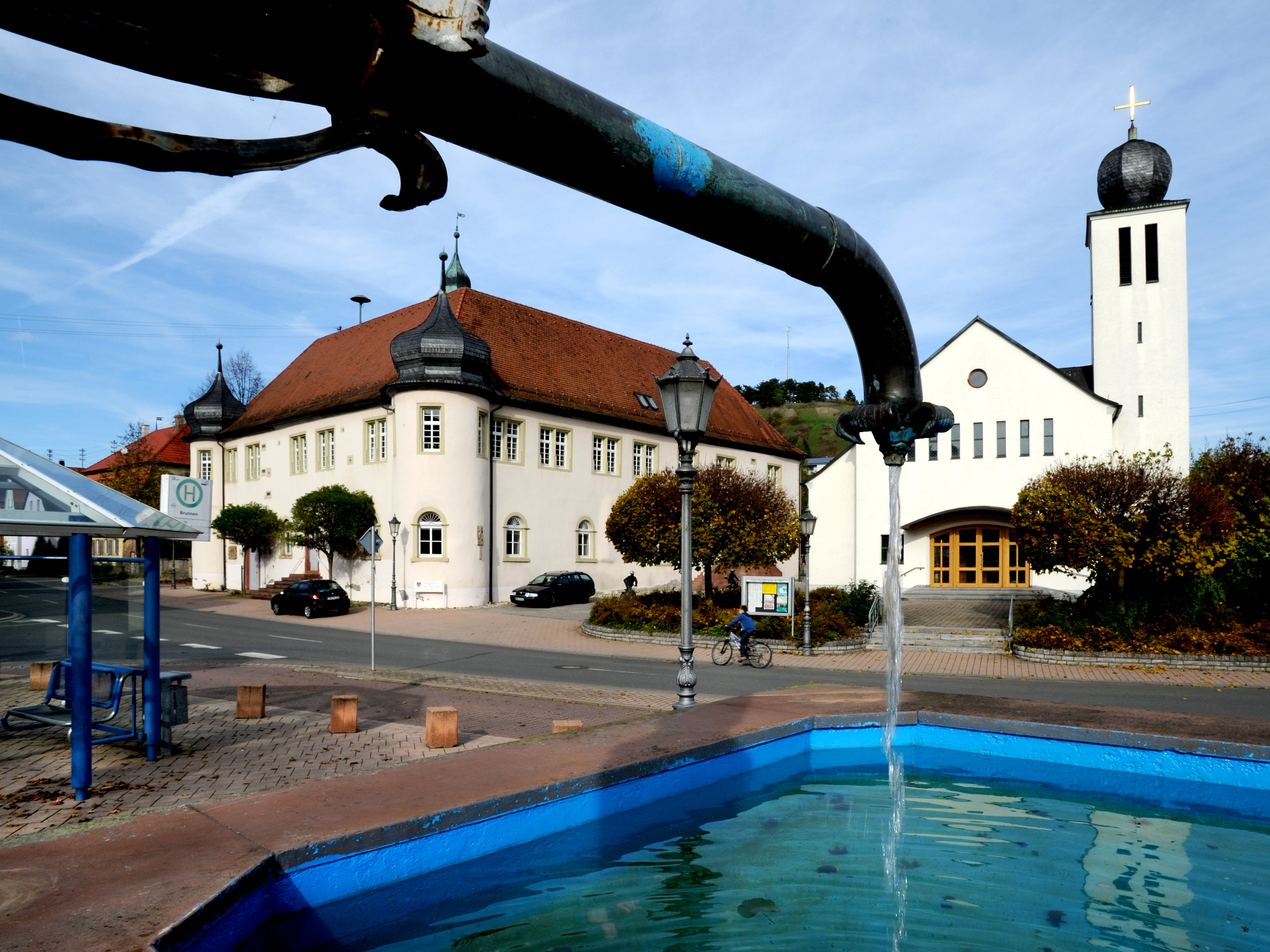 Unterschüpf a village of Boxberg.